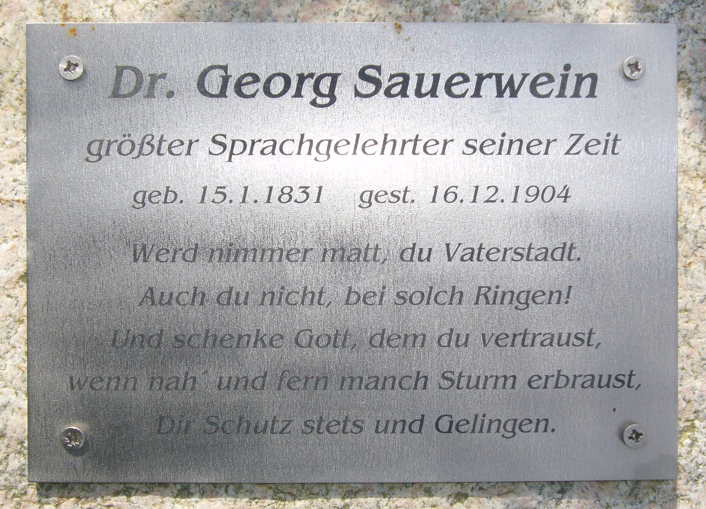 Tombstone of Georg Sauerwein at Lehder Friedhof in Gronau, Lower Saxony, commemorative plaque